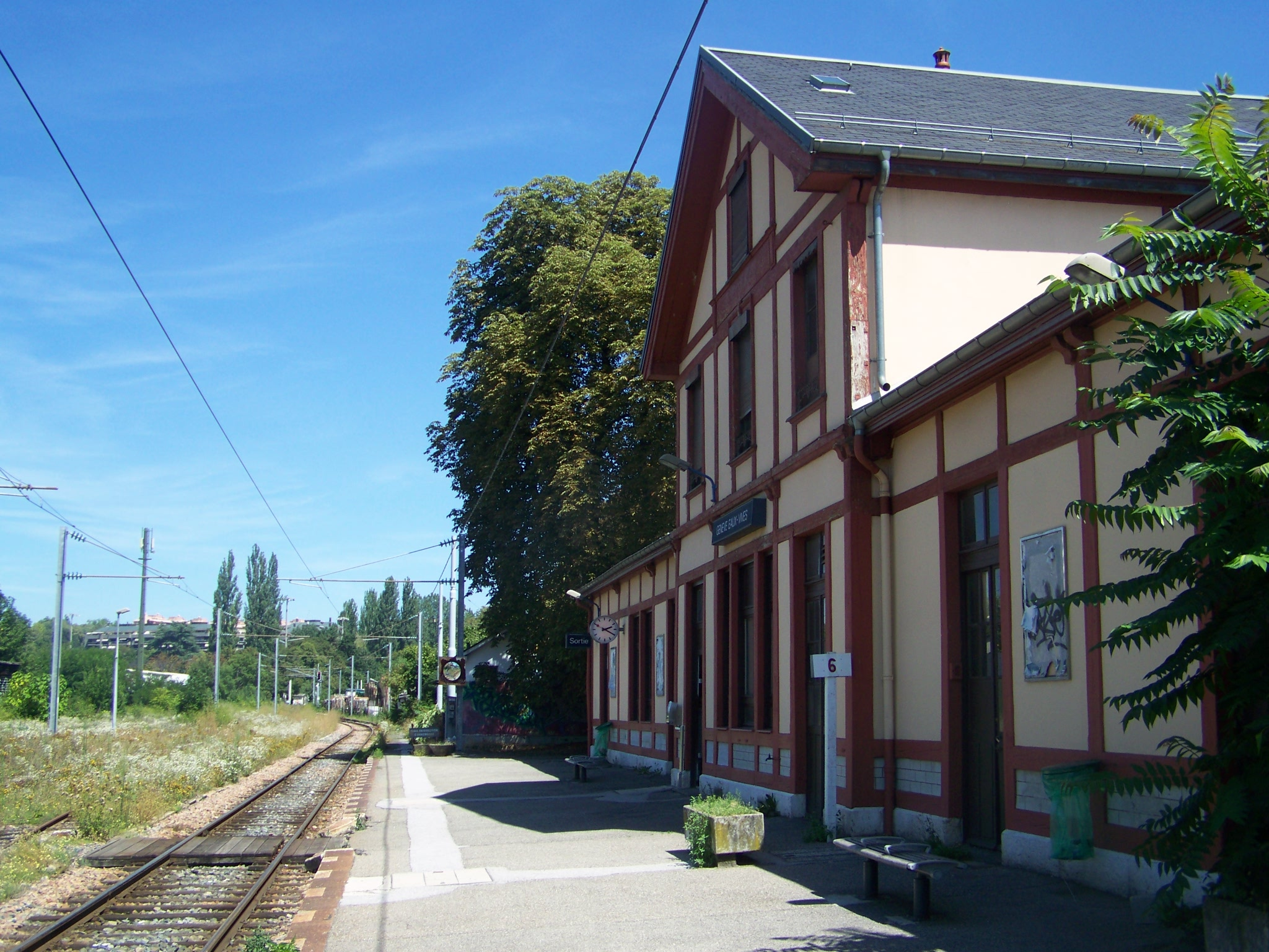 Platform and main track of the French Genève Eaux-Vives railway station in Geneva, Switzerland.